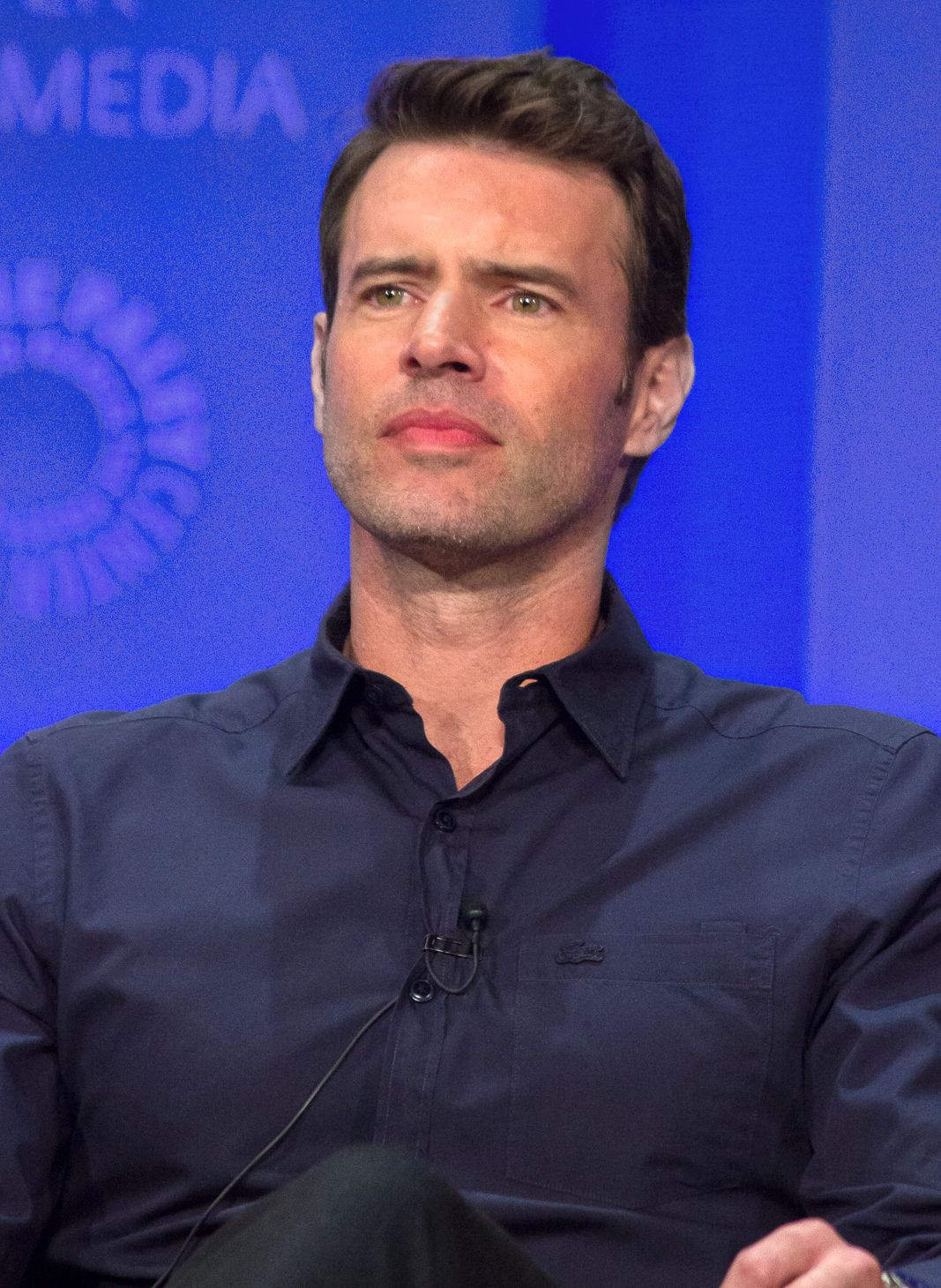 Scott Foley at PaleyFest 2015